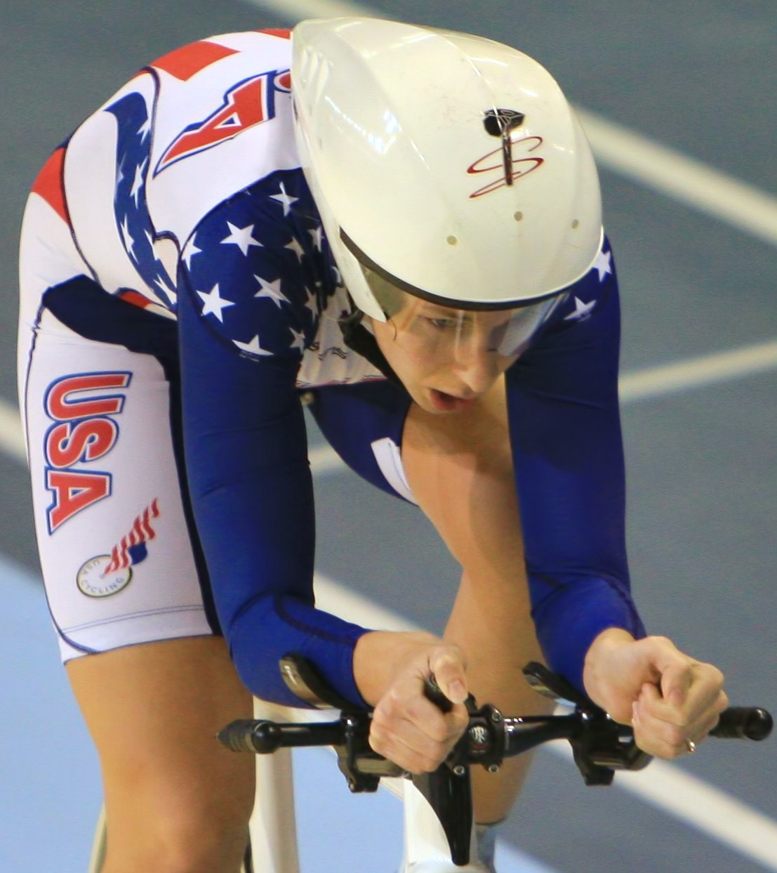 Sarah Hammer in the 2010 UCI Track Cycling World Championships in Copenhagen, Denmark.